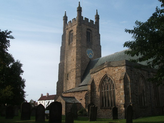 15th-century west tower and 13th-century south transept of St Edmund's parish church, Sedgefield, County Durham, seen from the southeast